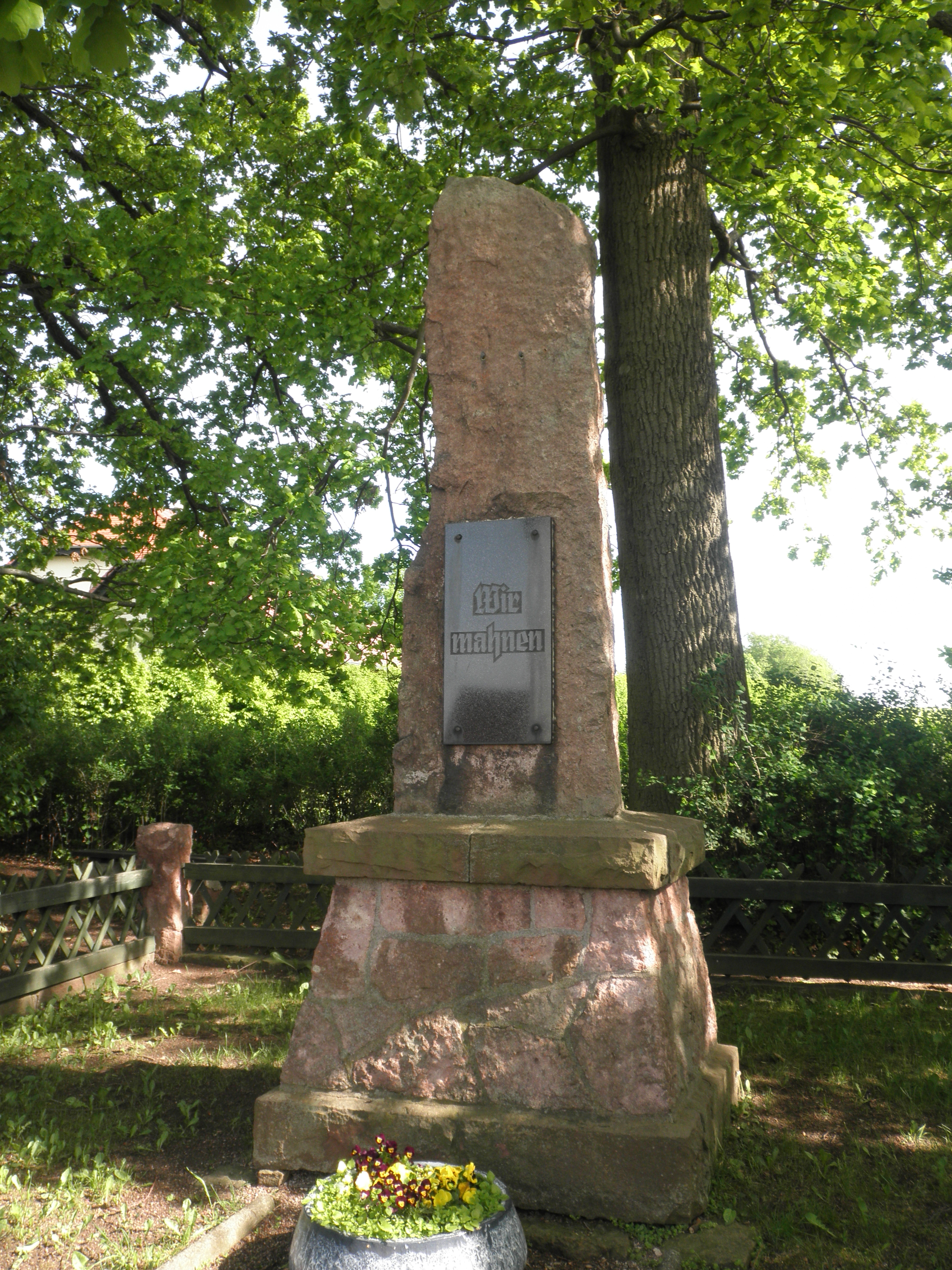 War Memorial in Kornhochheim in Thuringia